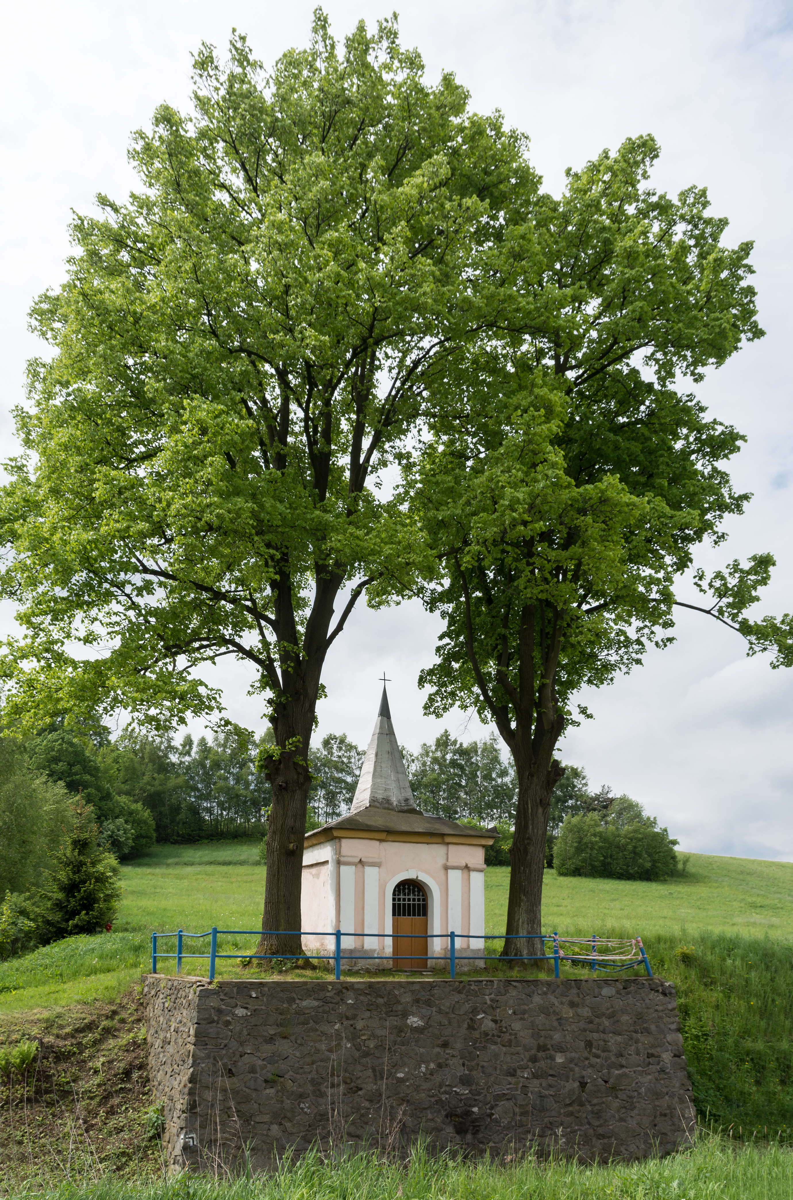 Roadside chapel in Droszków